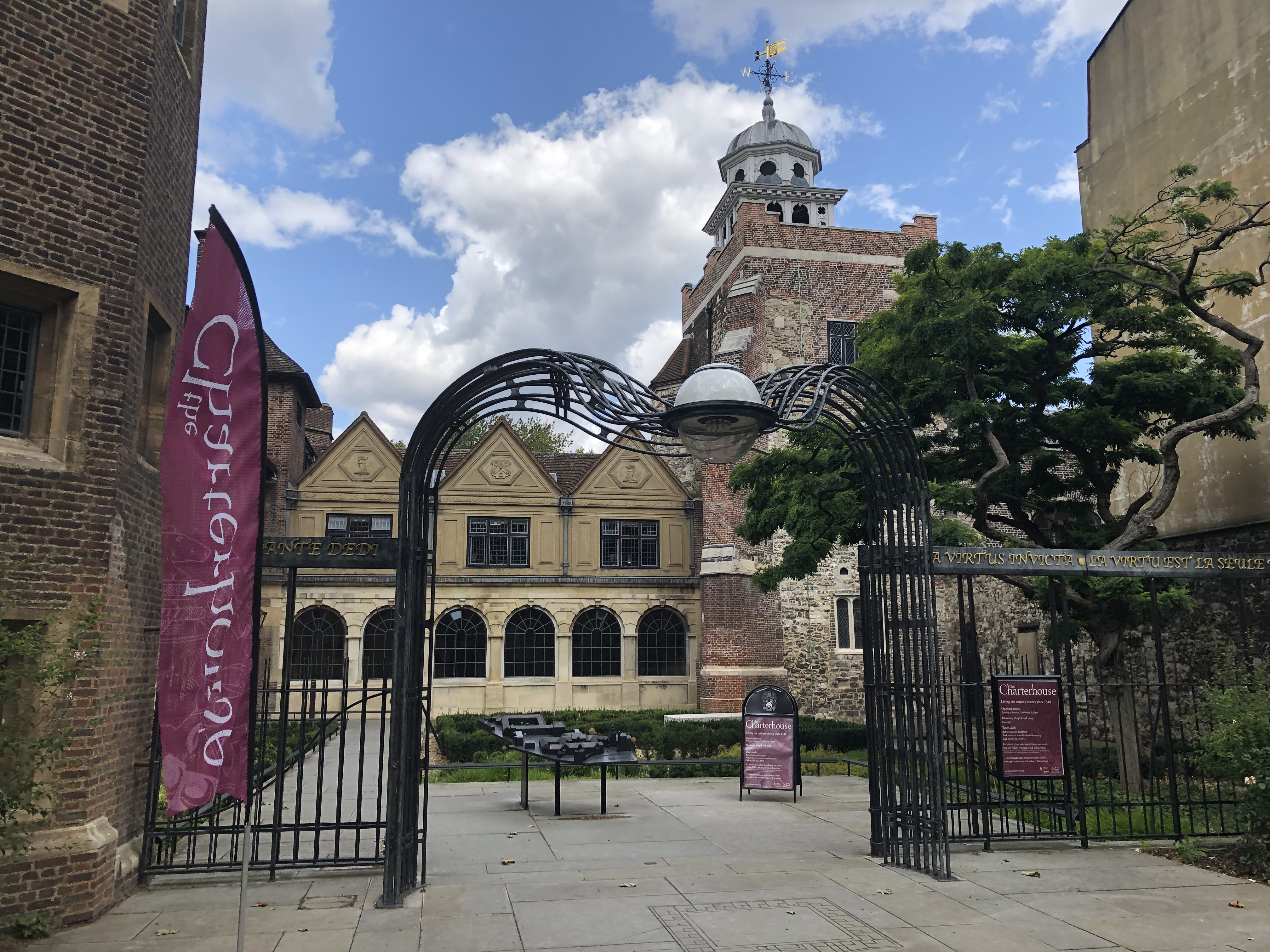 View of the entrance to the London Charterhouse, an almshouse in Islington, London